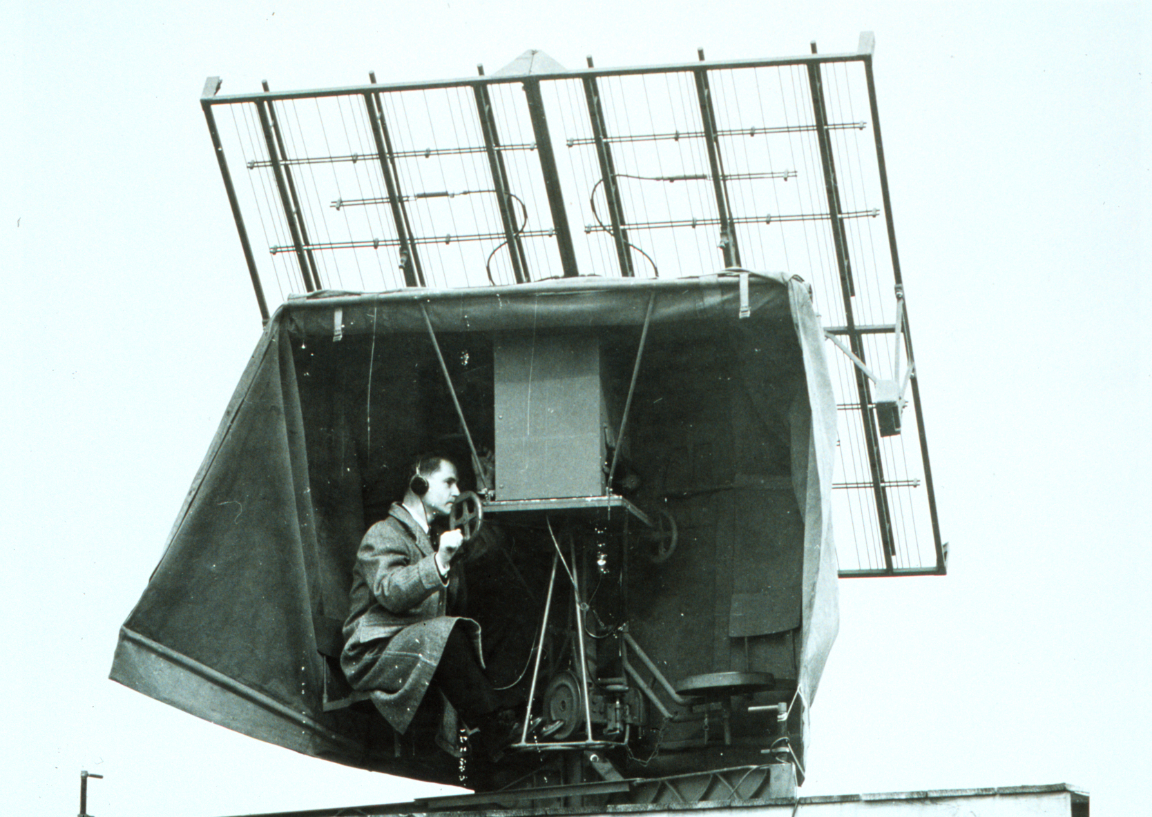 SCR-658 radio direction finder used to track radiosonde balloons Termed "bedsprings" antenna